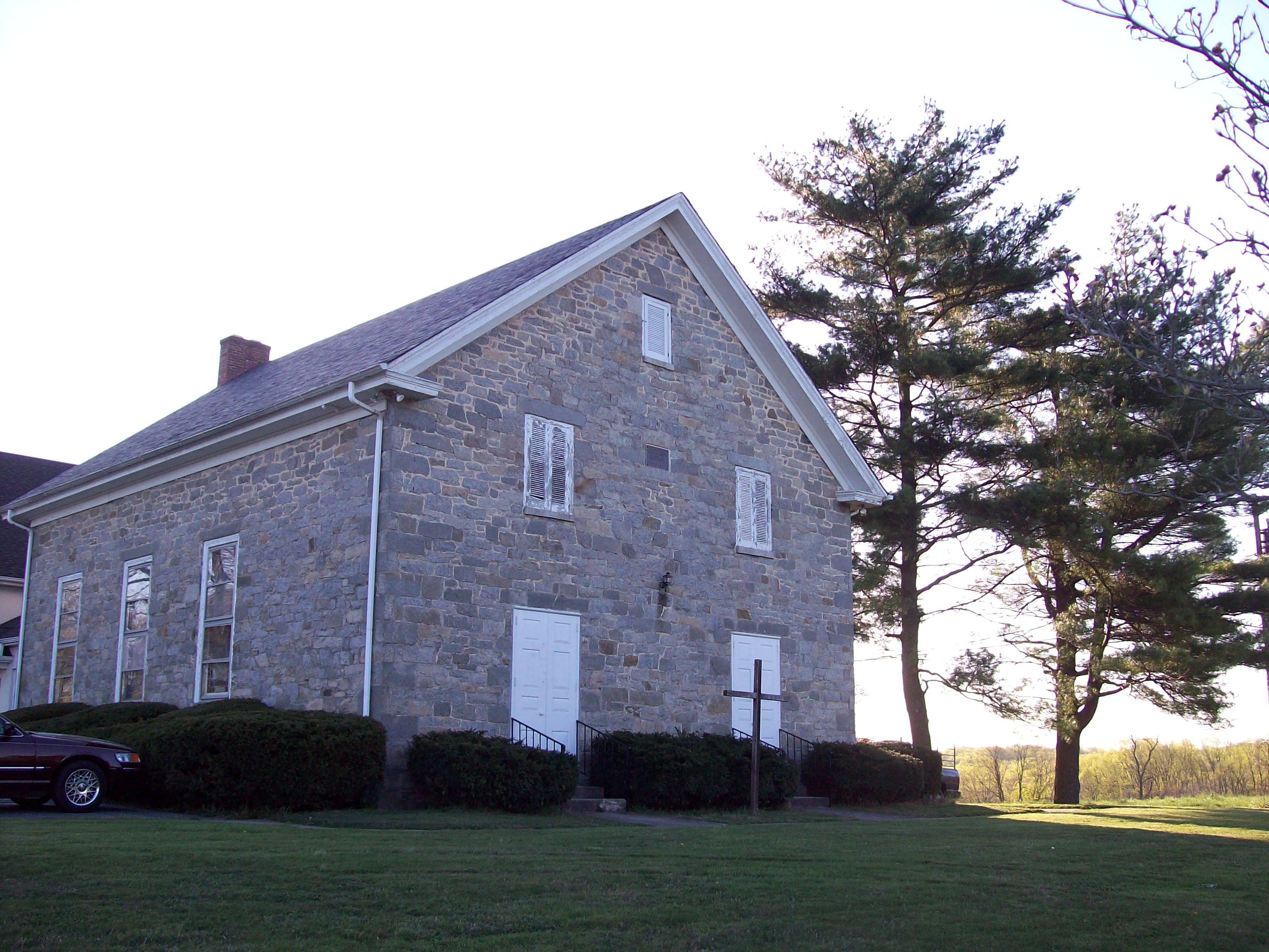 The Church sits on the corner of Craig's Corner Road and Rock Run Road. It was built in 1843. A view of the Church on the morning of April 8, 2012.